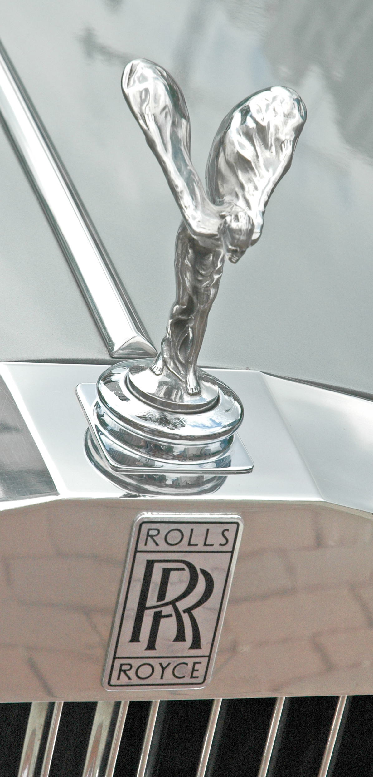 The Rolls-Royce badge and "Spirit of Ecstasy" on the front of a 1967 Silver Shadow.